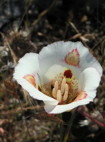 This seems more strikingly colored and has MUCH thicker stamens than the exemplar photograph for Calochortus venustus * Butterfly Mariposa Lily, but i think it's the right species. (Fremont Peak, CA, USA)